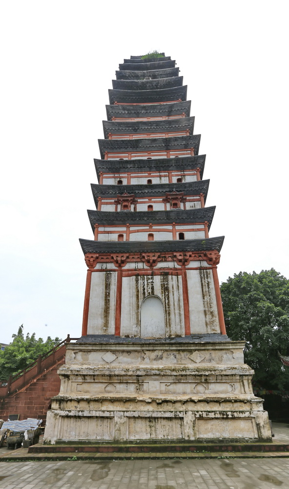 Shengde Temple Pagoda